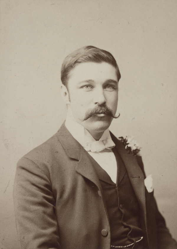 Fergus Hume, English noverslist and author of The Mystery of a Hansom Cab